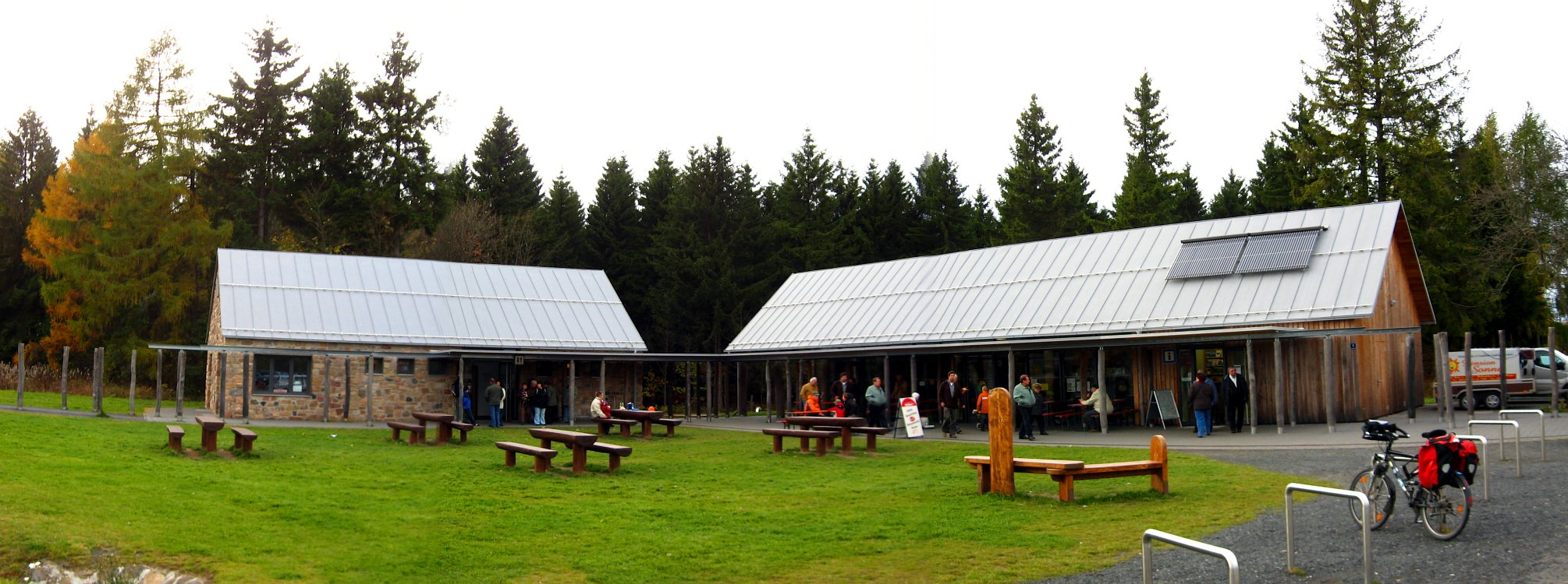 Germany / Mountains Rhön: visitor center near the black moor